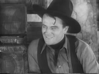 John Wayne in The Trail Beyond, a 1934 film by Robert N. Bradbury